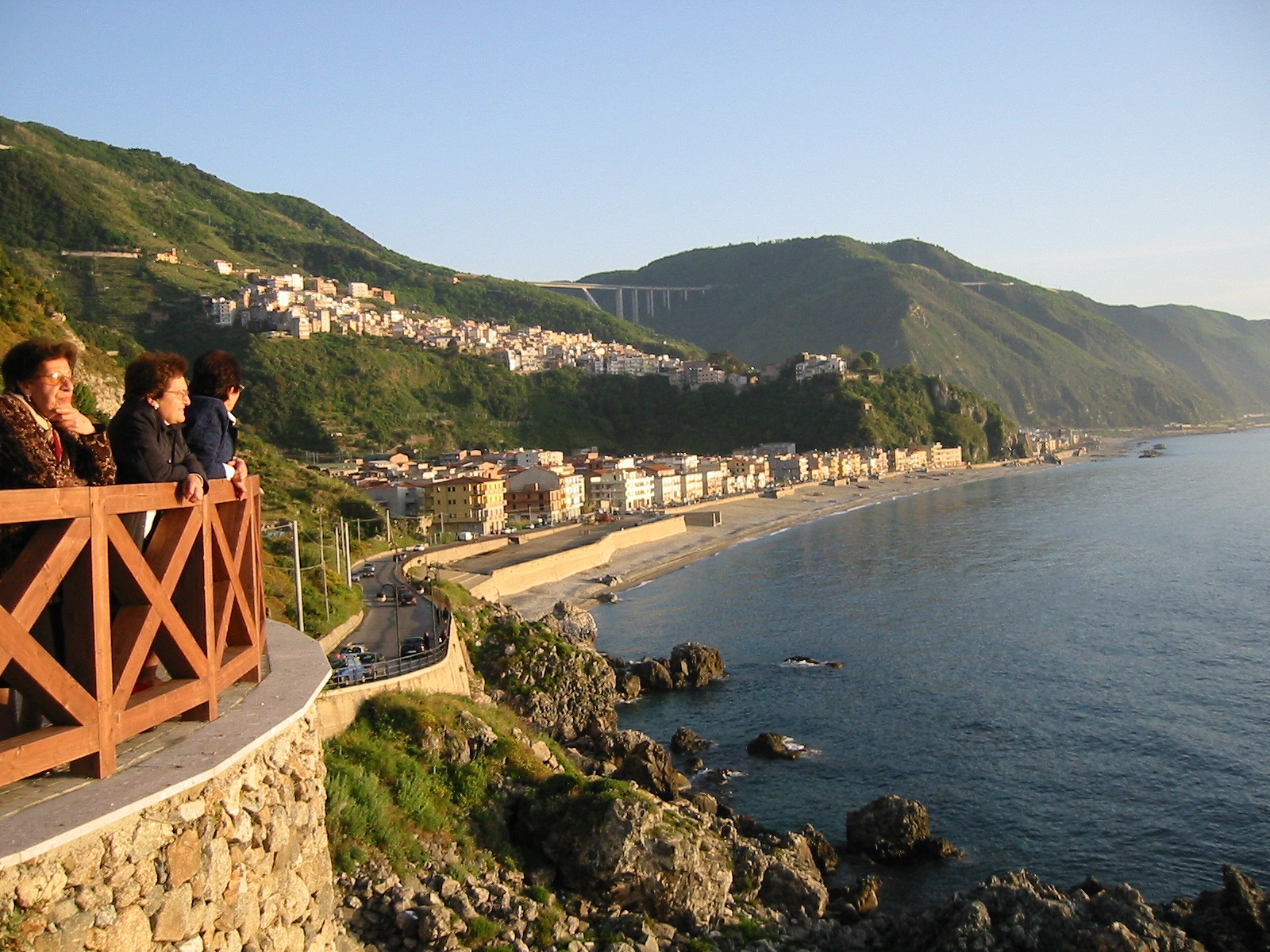 Bagnara Calabra in Calabria in Italy. View with Autostrada in the background.